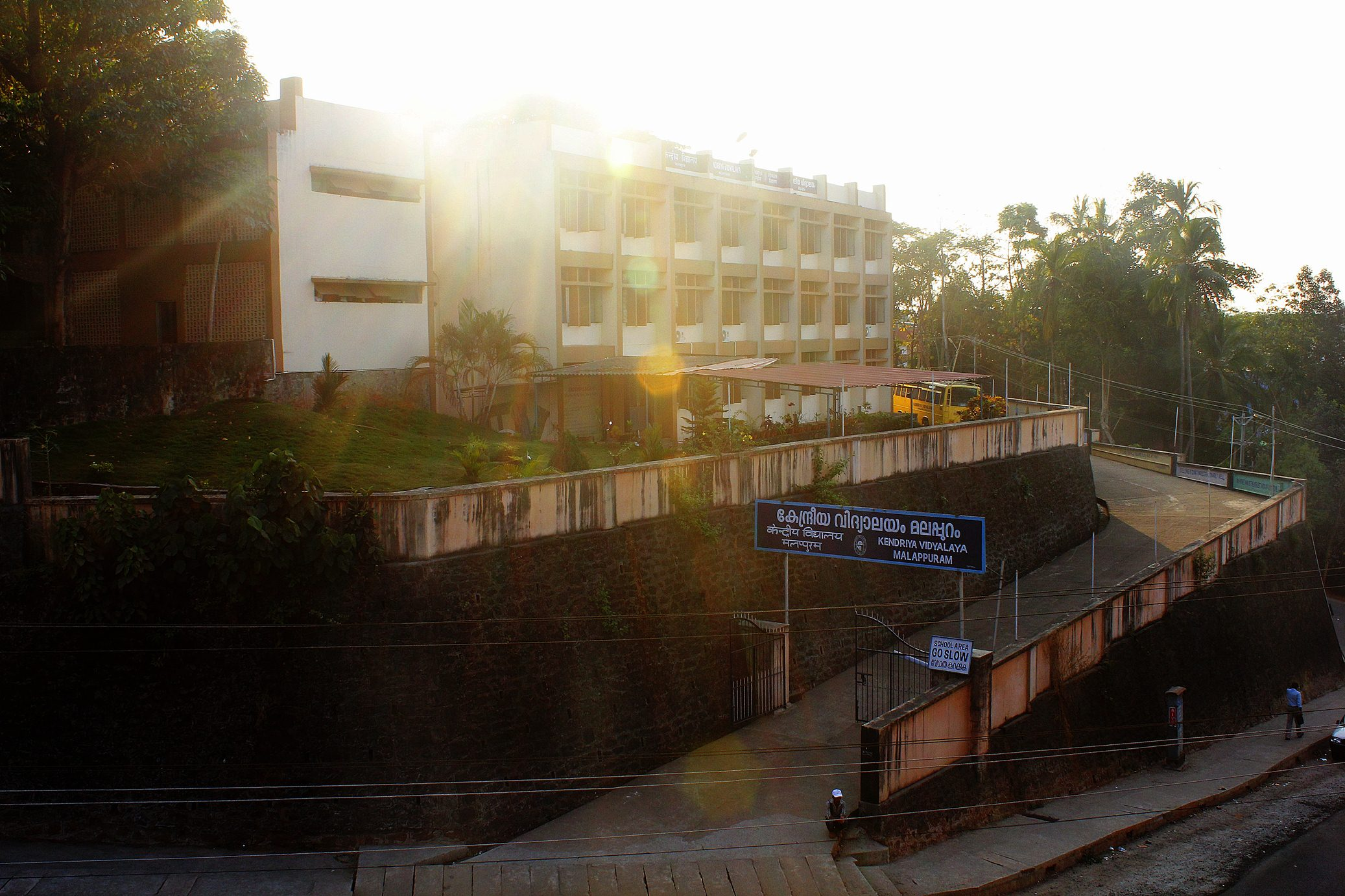 Kendriya Vidyalaya Malappuram at dawn.